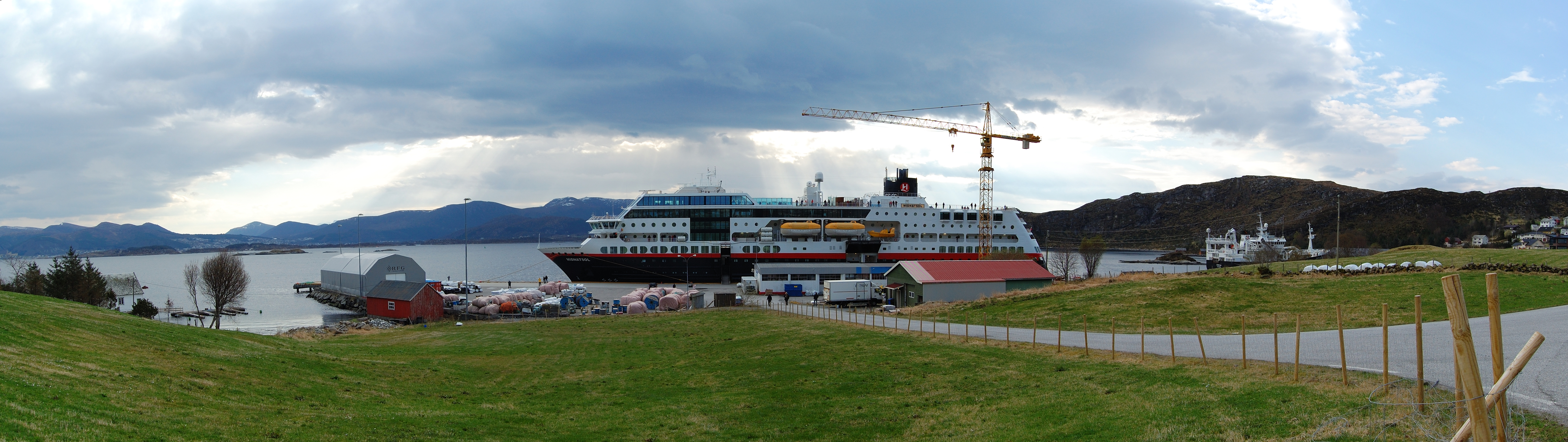 Norwegian cruise ship M/S Midnatsol in Torvik.